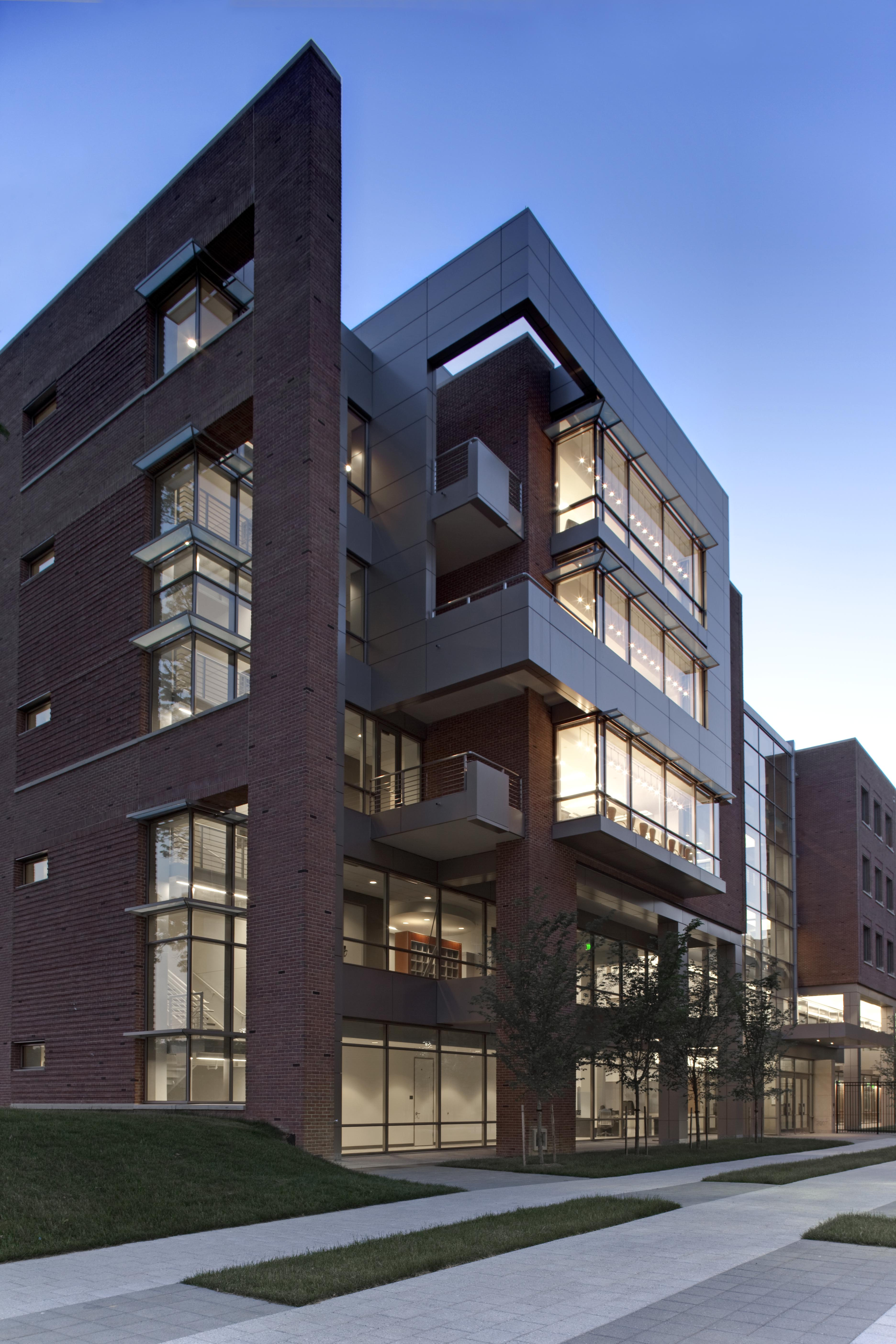 FDA Building 32 houses the Office of the Commissioner and the Office of Regulatory Affairs. The FDA campus is located at 10903 New Hampshire Ave., Silver Spring, MD 20993.